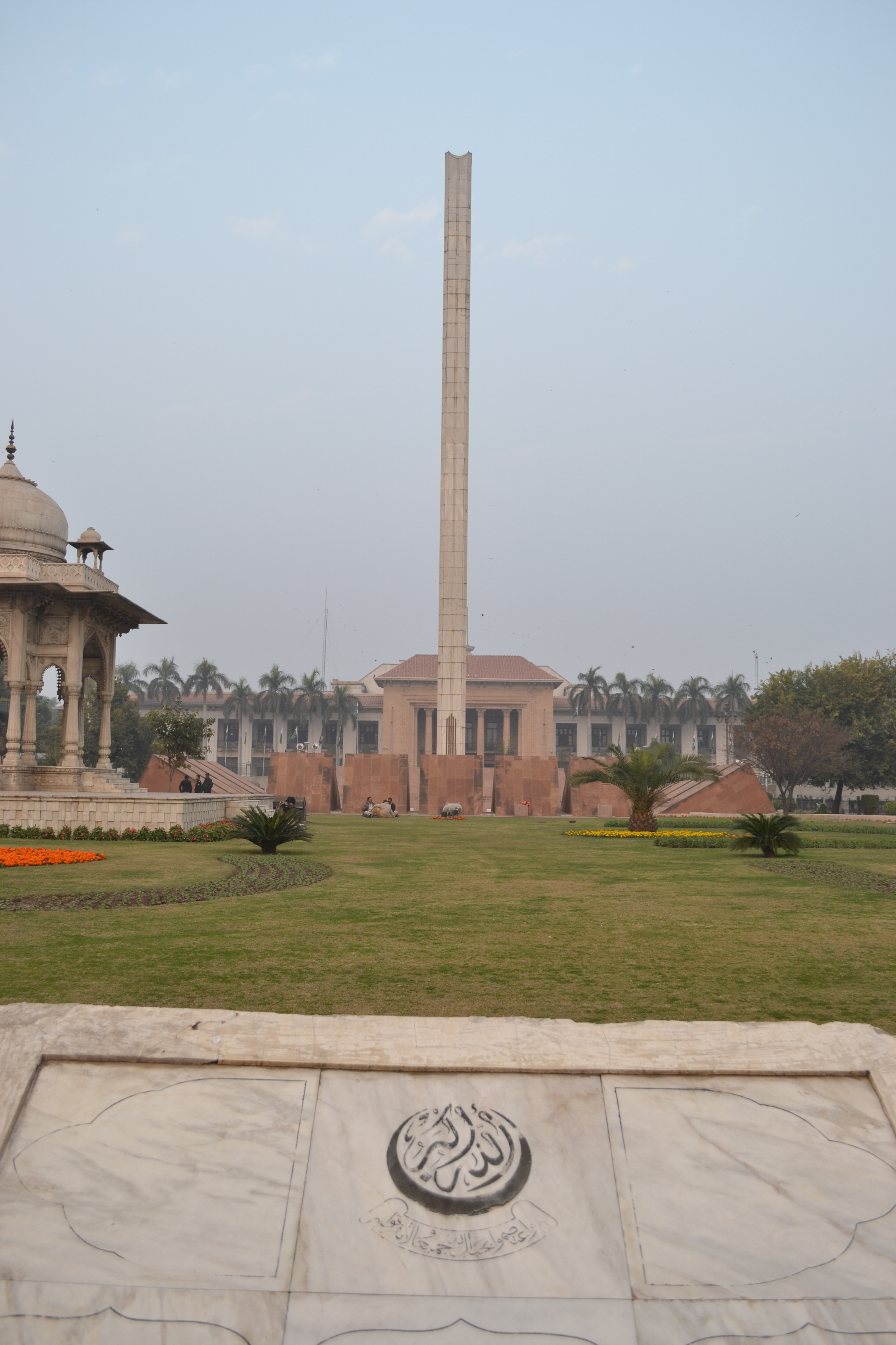 Summit Minar, Punjab Assembly